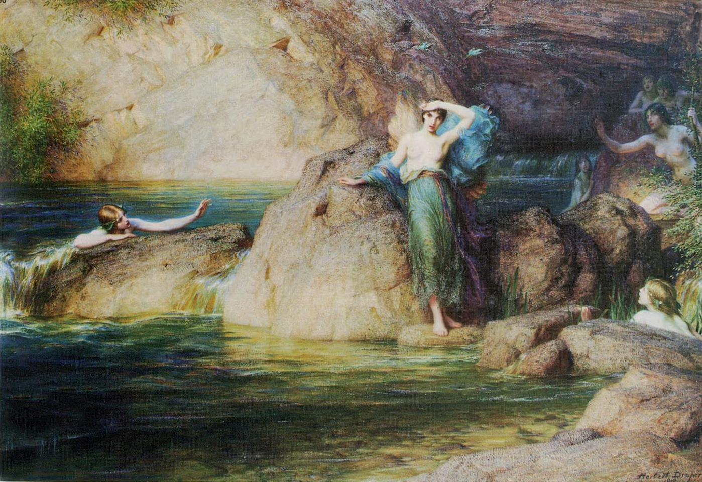 Oil on canvas.